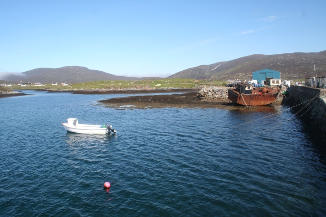 Leverburgh Harbour The rusting hulk is called "Success" !